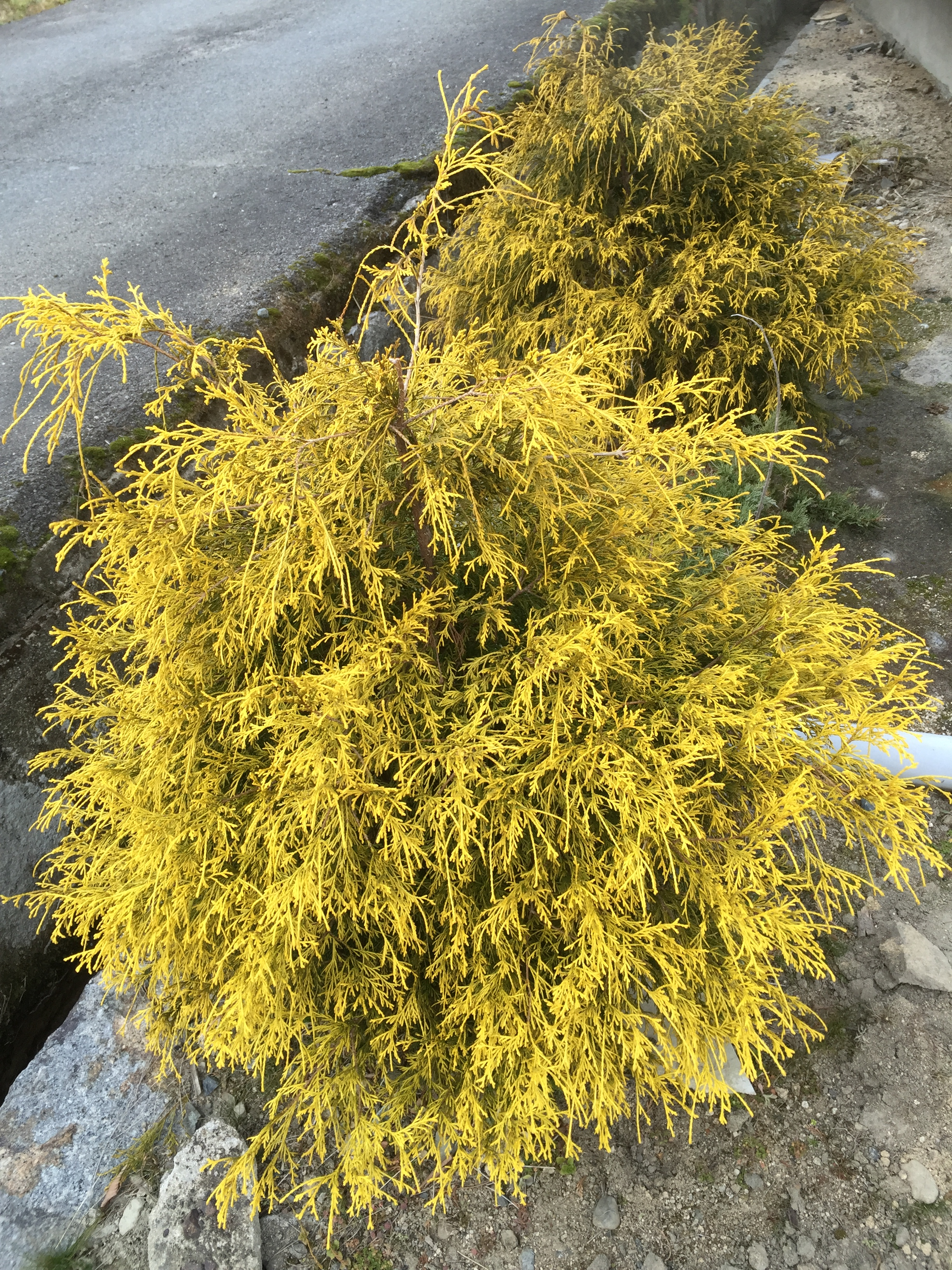 Chamaecyparis "filifera_aurea"